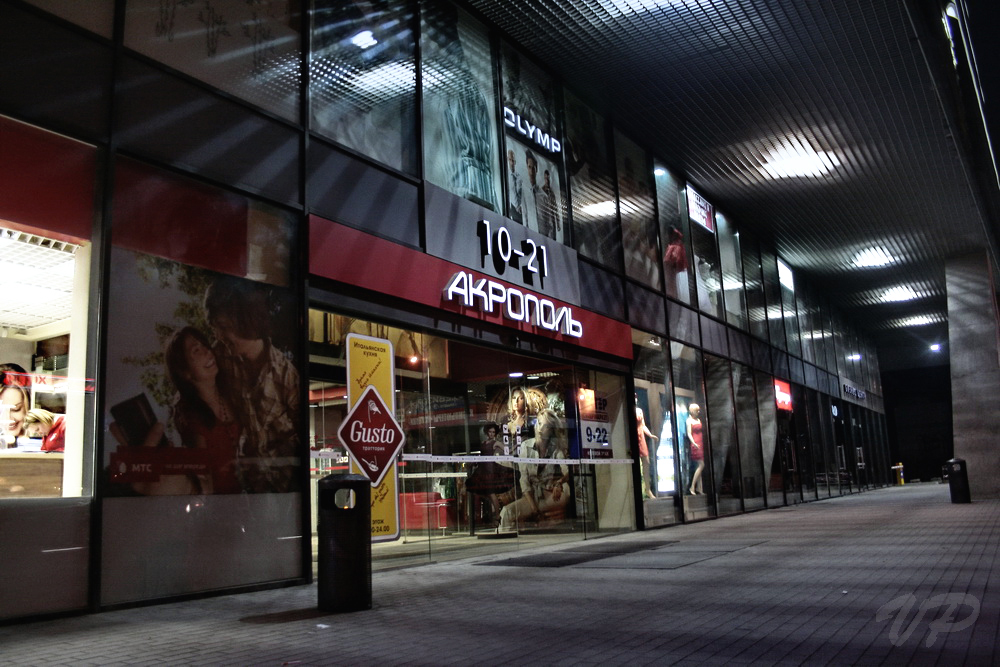 Acropol at evening